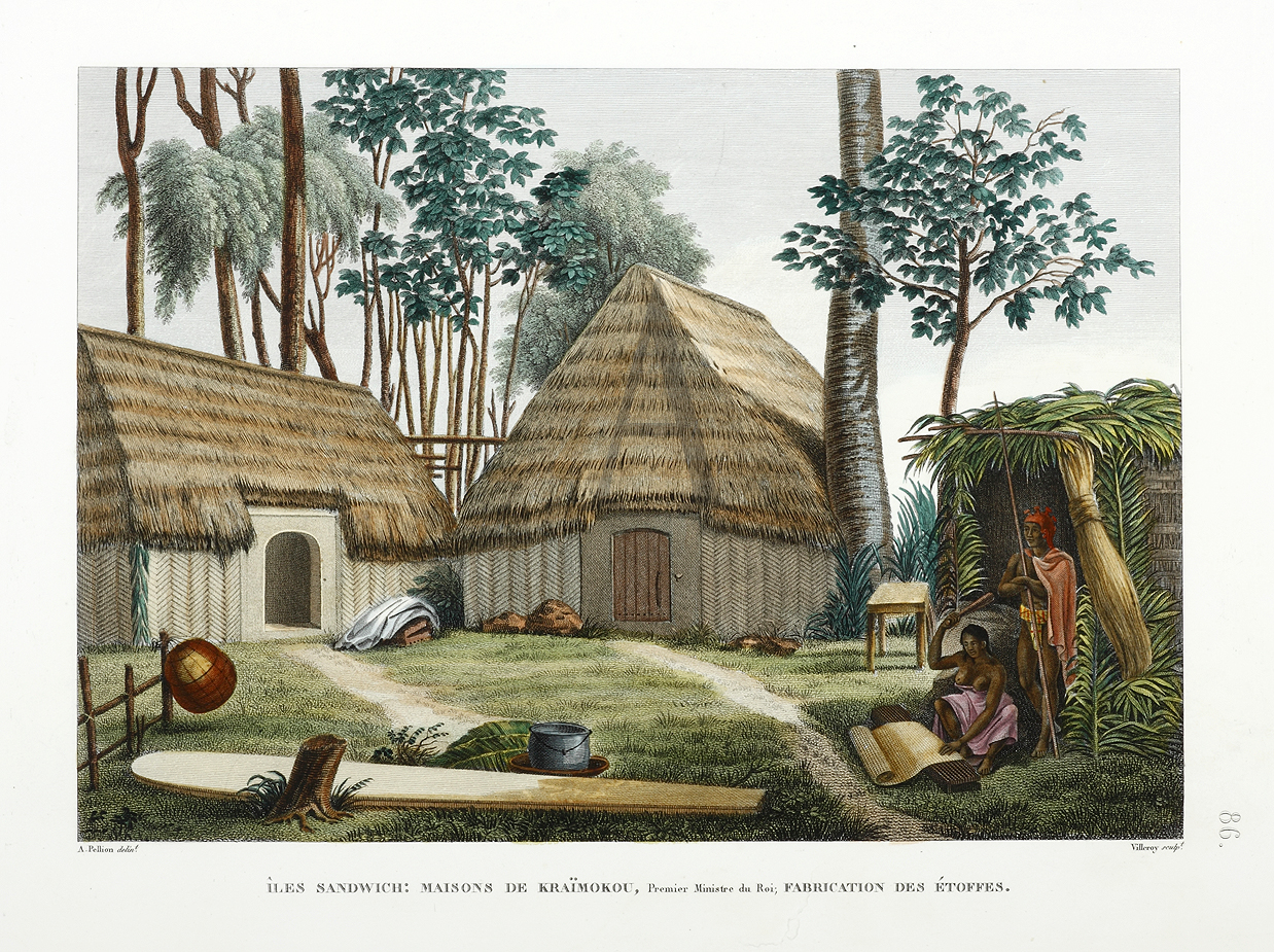 A depiction by Alphonse Pellion, the artist who accompanied French explorer Louis de Freycinet to the Sandwich Islands (now the Hawaiian Islands) on board the Uranie, of the esteemed Prime Minister Kalanimoku standing in the doorway of one of his houses in the company of his wife Likelike, shown with her right arm raised and about to strike a sheet of kapa. In the foreground is an Olo board, the largest of the Hawaiian wood surfboards. Reserved for royalty, they ranged in size from 1.8 to 8 meters.